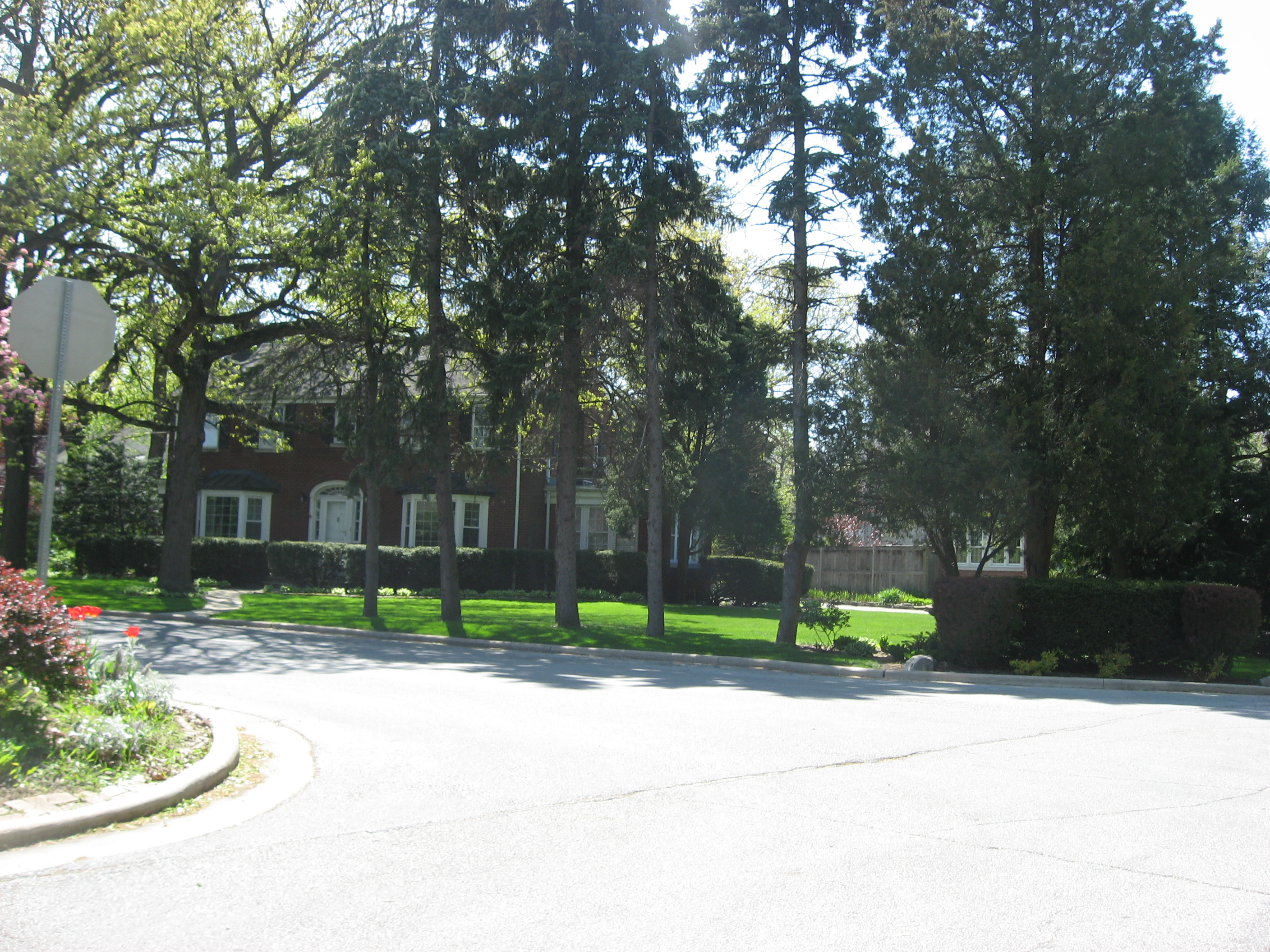 Looking south along Forest Avenue from the 172nd Place intersection in Hammond, Indiana, United States. In the background is 7240 Forest Avenue, built in 1937. This portion of Forest is the core of the Forest-Ivanhoe Residential Historic District, a historic district that is listed on the National Register of Historic Places.